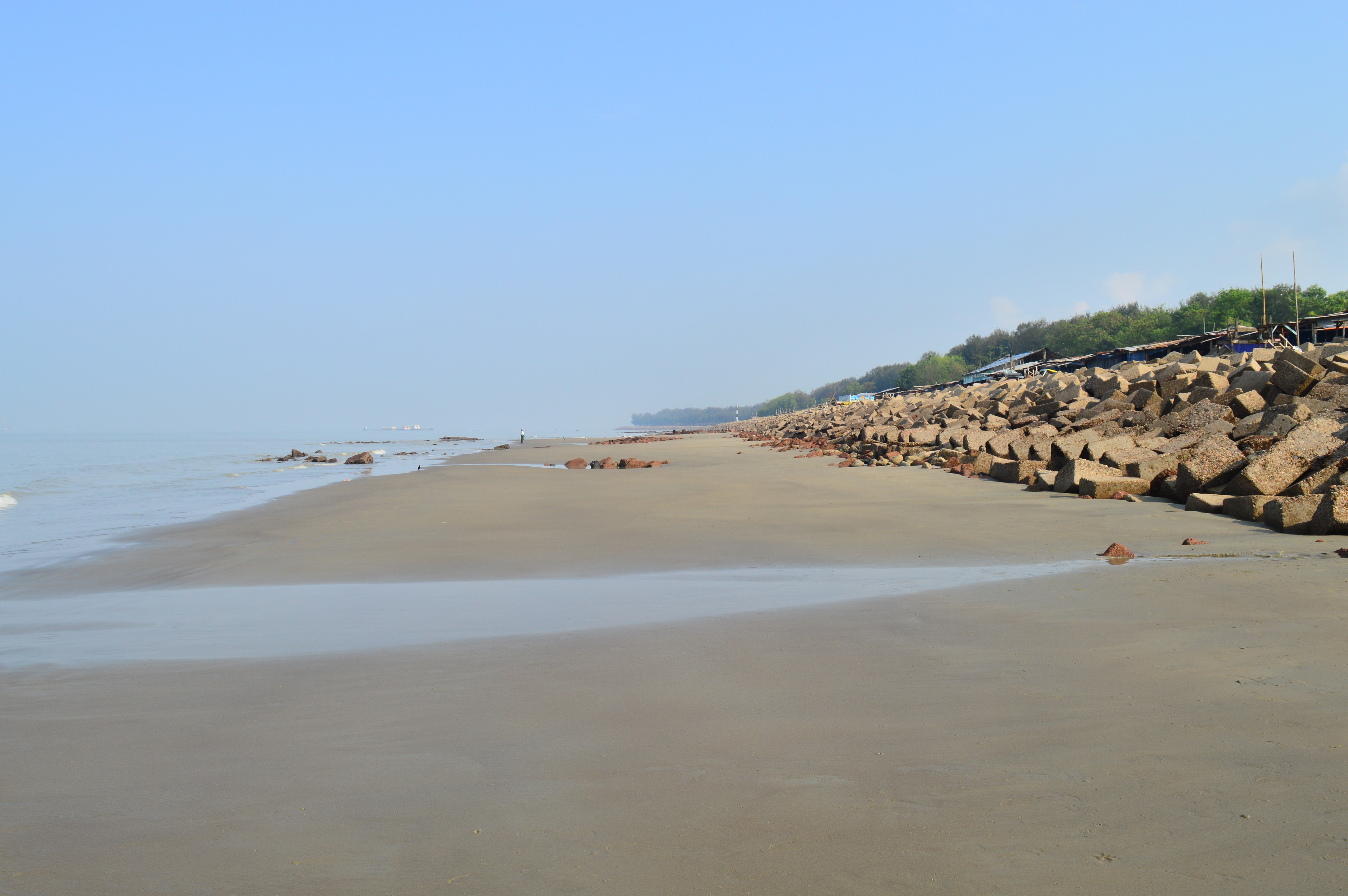 Patenga sea beach (west-east view), Chittagong, Bangladesh